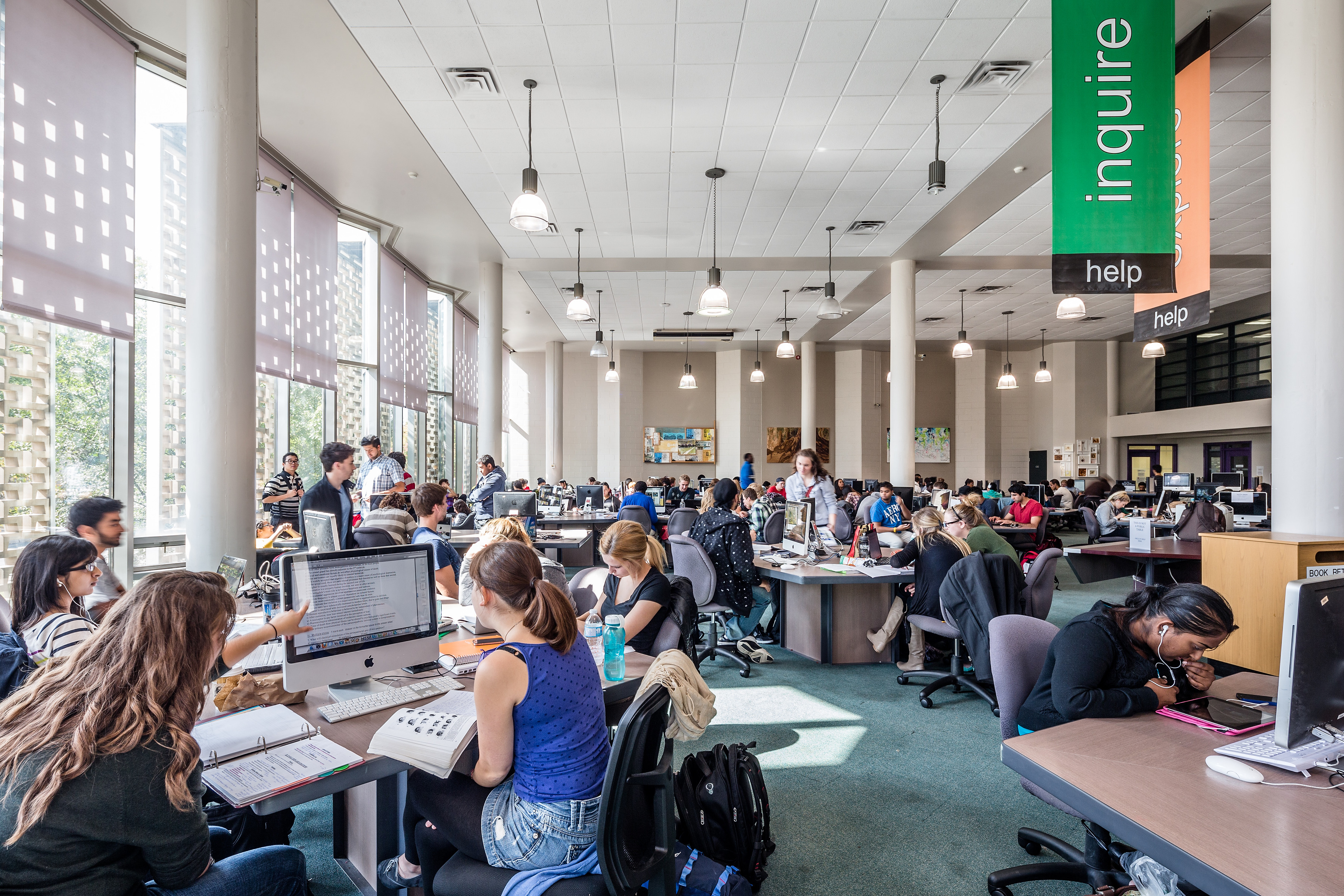 October 4, 2012; Hamilton, Ontario, Canada; Mills Memorial Library - McMaster University. Photo Ron Scheffler for McMaster University.